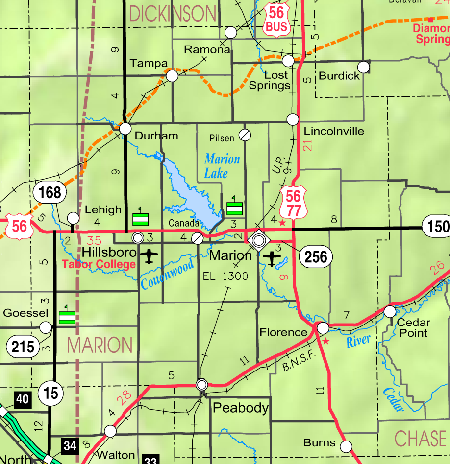 This map of Marion County, Kansas, USA, is copied at a resolution of 300 pixels/inch from the original PDF file.